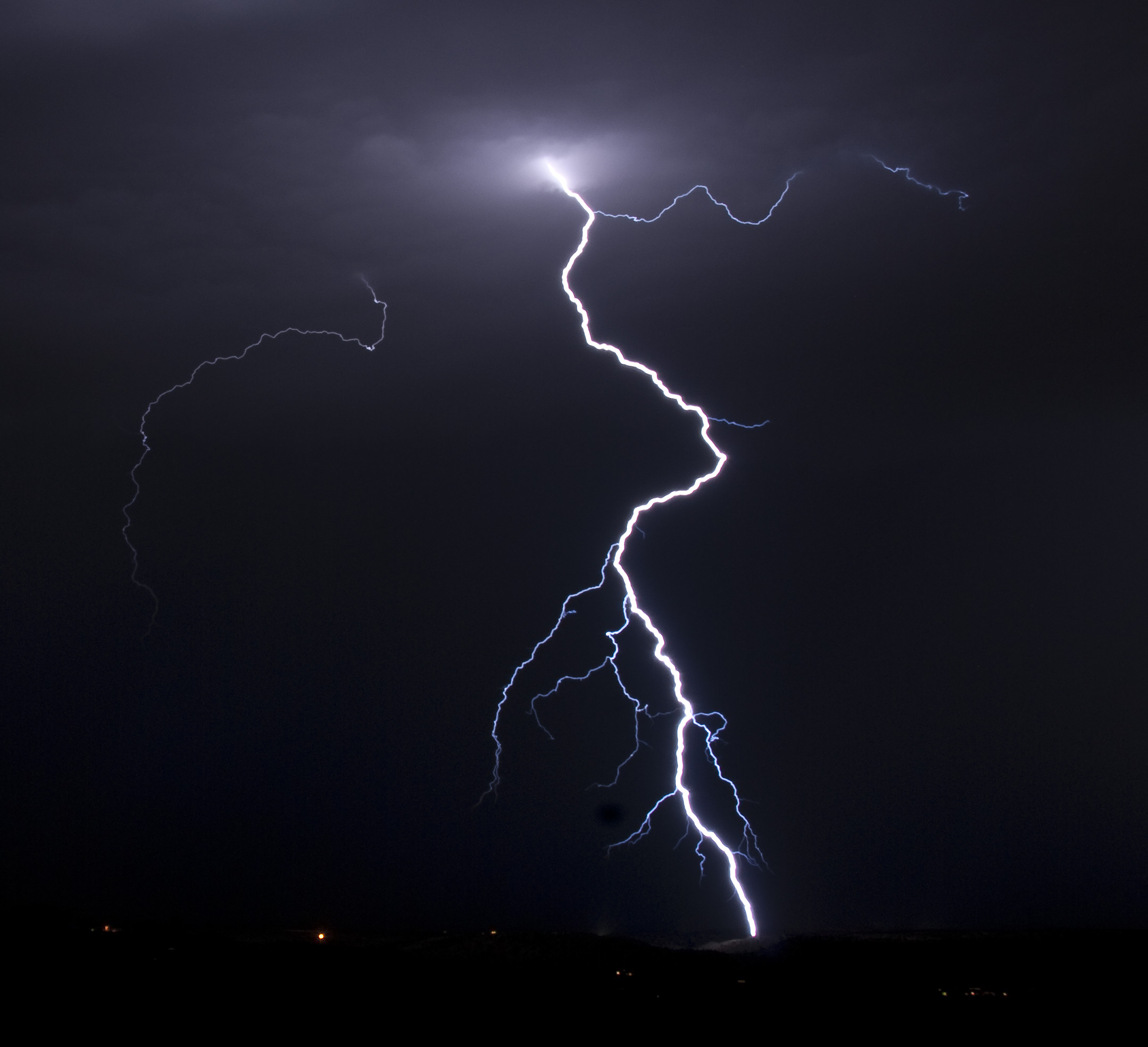 Lightning